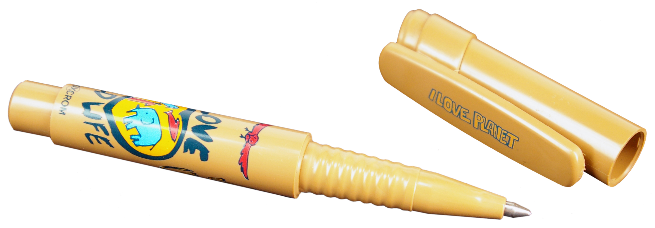 Ball Pen made of PLA-Blend Bio-Flex